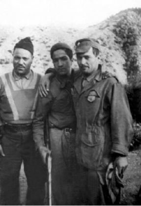 left to right : Colonel Ali Mellah, Boumahdi, & commandant Omar Oussedik